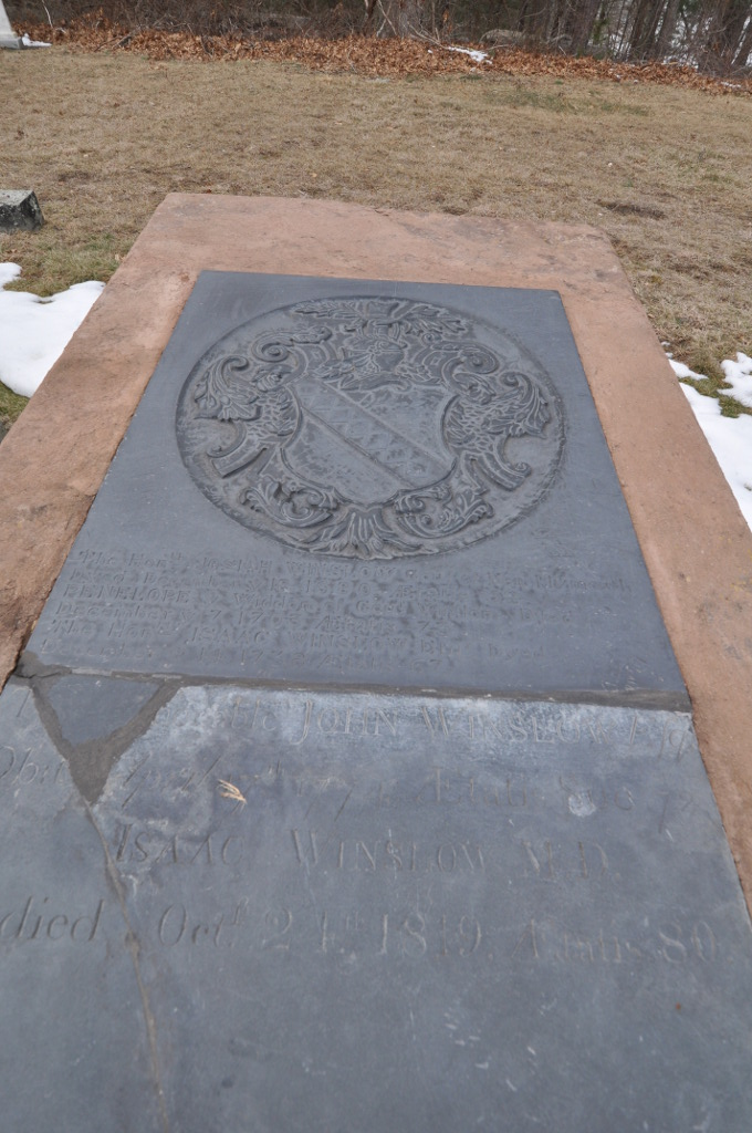 Winslow Cemetery, Marshfield, Massachusetts. Marker for Josiah Winslow.